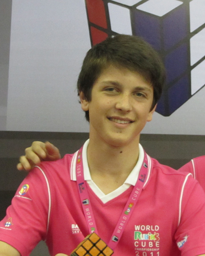 Feliks Zemdegs taken at the World Cubing Association World Championships in Bangkok on 15th Oct 2011.